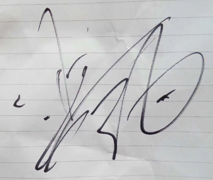 This is Jordan Chan's signature.